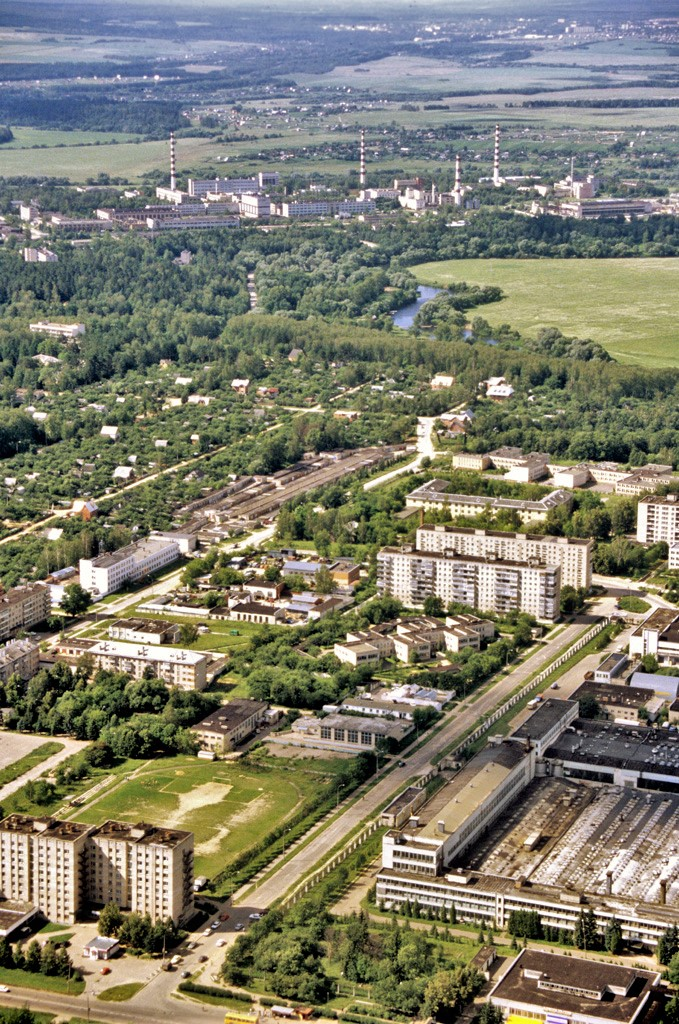 “Views of Obninsk”. Views of Obninsk from the height of 150m.